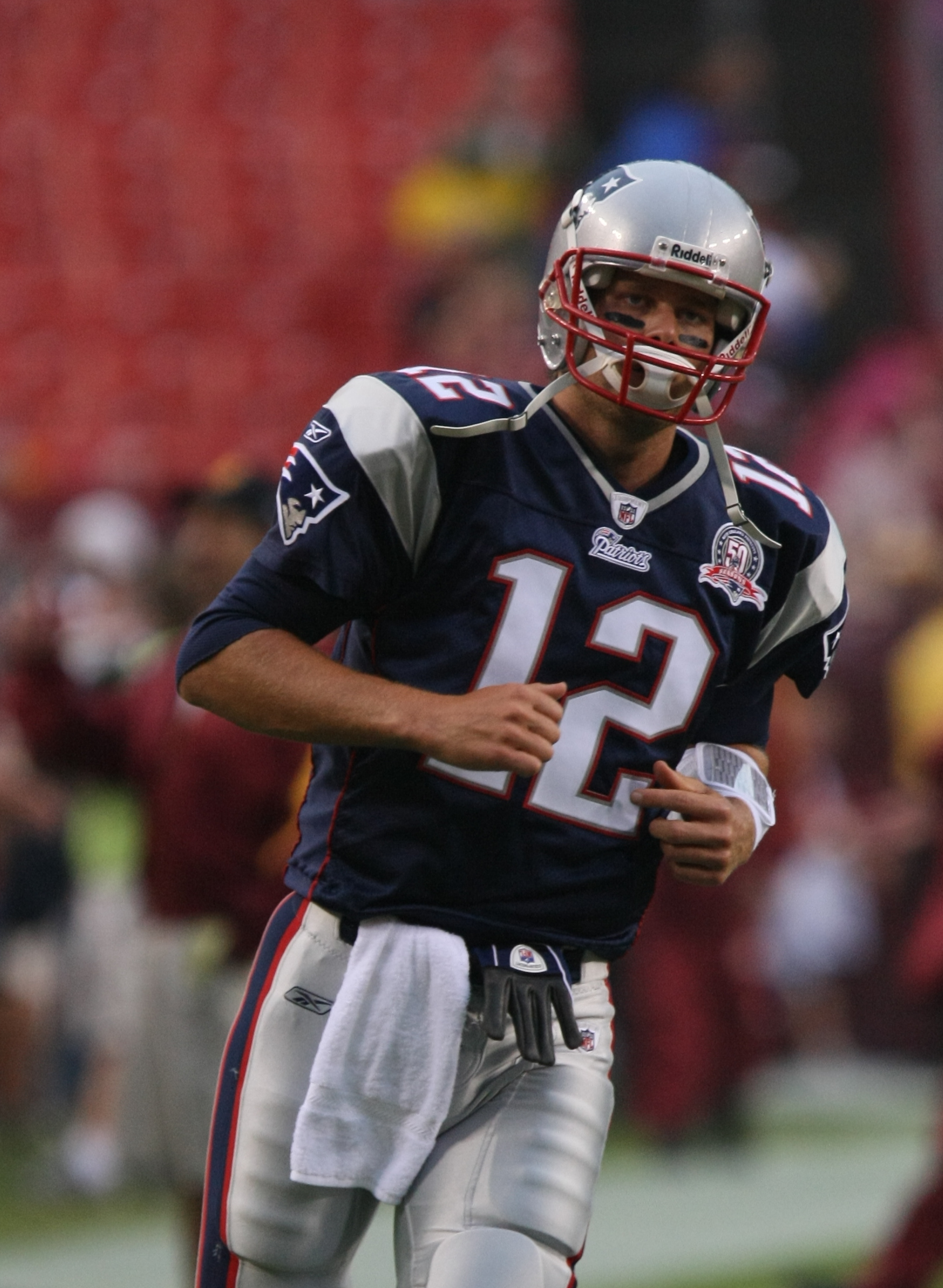 New England Patriots at Washington Redskins 08/28/09